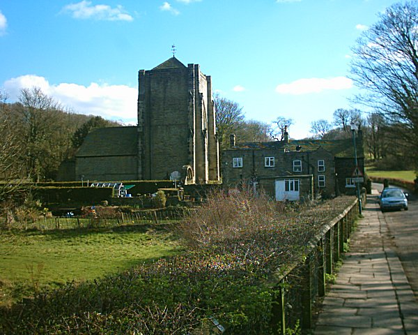 St Thomas of Canterbury's church (left) and Abbey Cottages (right), Beauchief Abbey, Sheffield, South Yorkshire, seen from the north